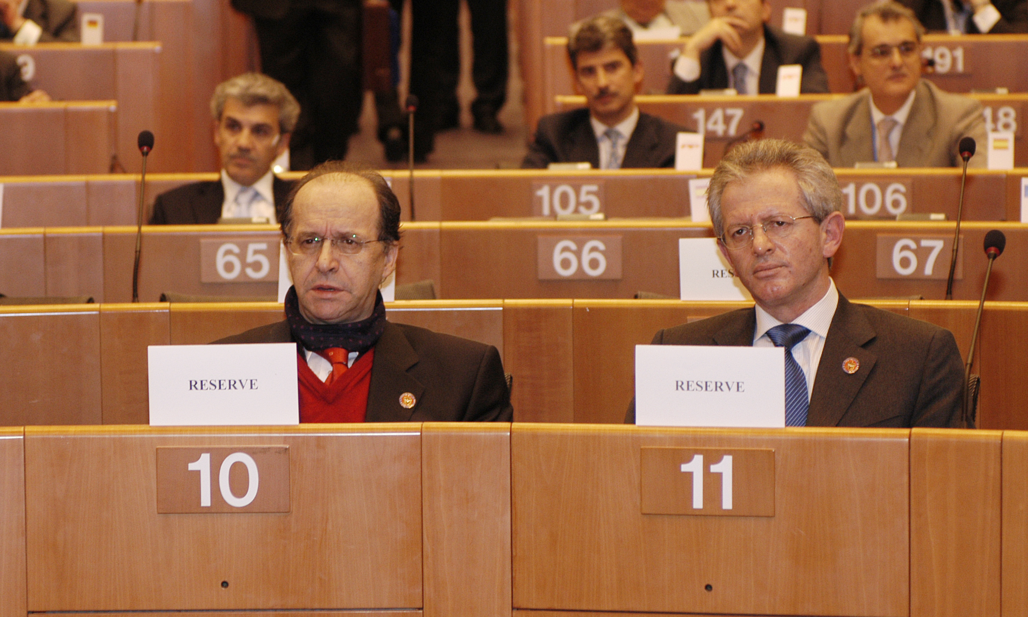 EPP Congress Brussels 4-5 February 2004